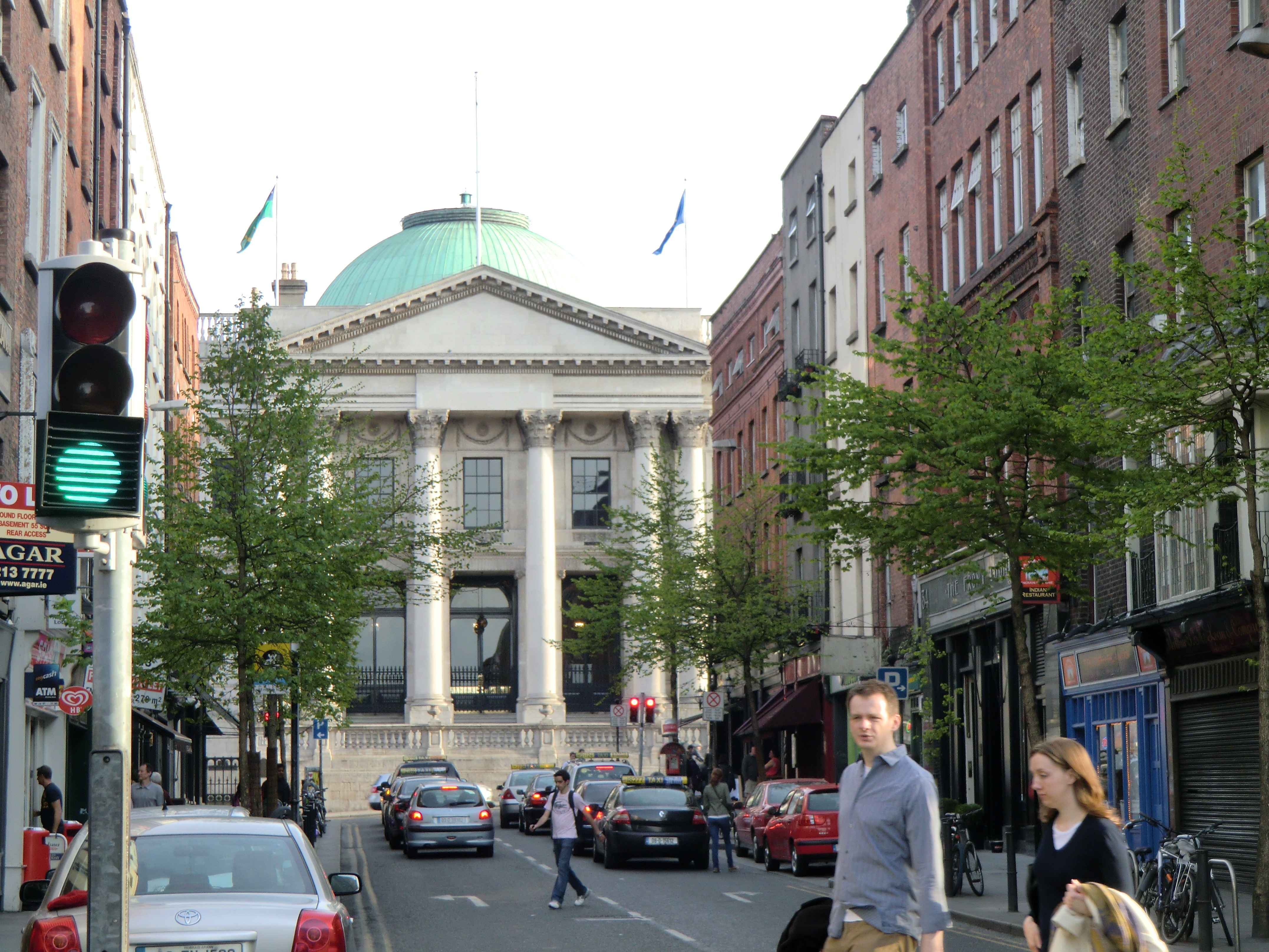 Dublin City Hall, as viewed from Parliament Street